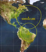 Swisscube footprint compared to ISS